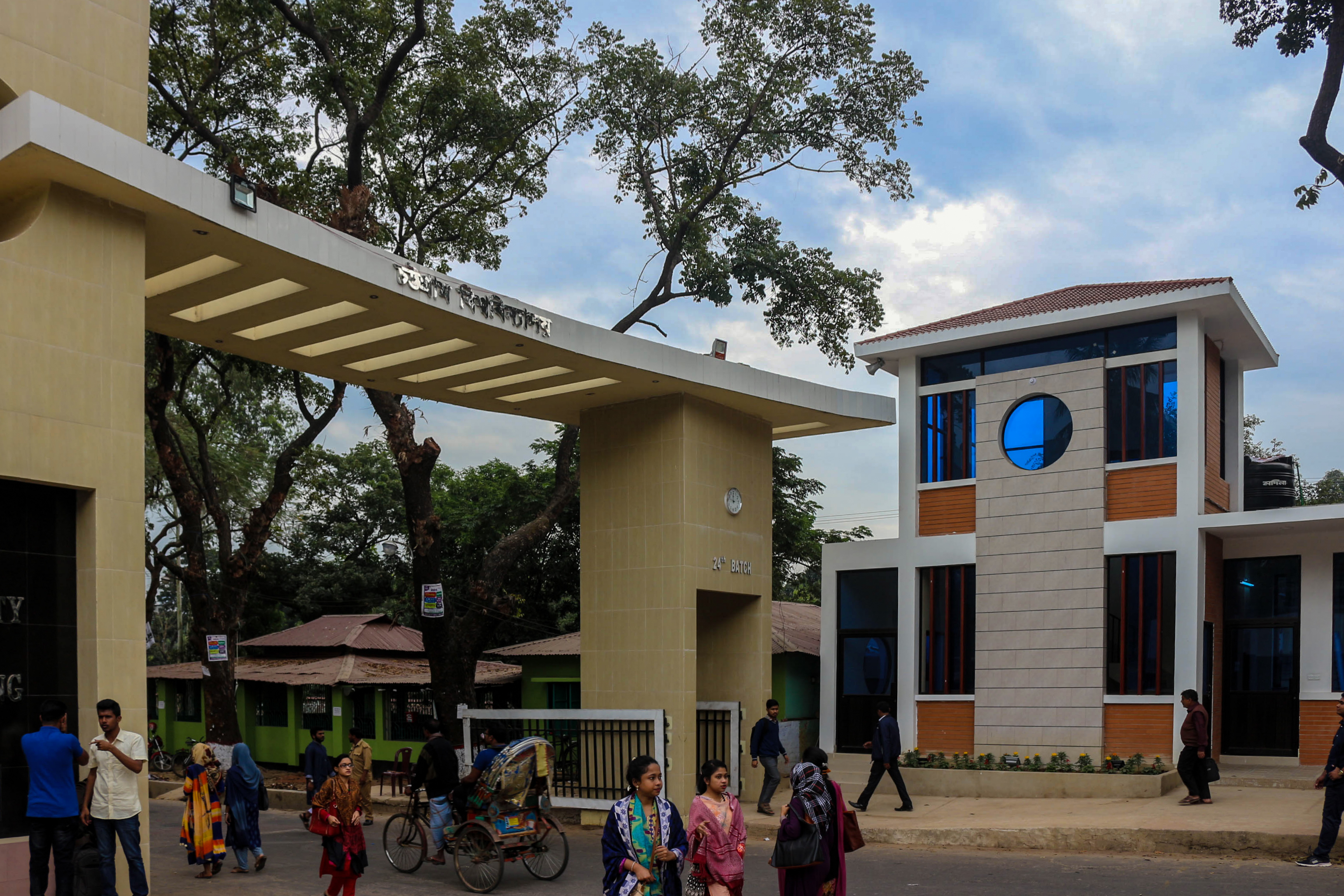 Main gate, Zero Point, University of Chittagong